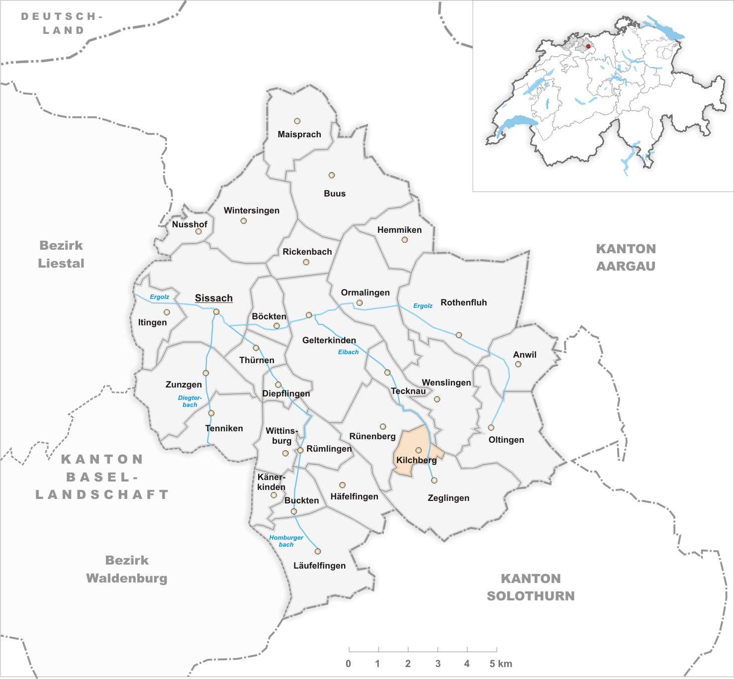 Municipality Kilchberg